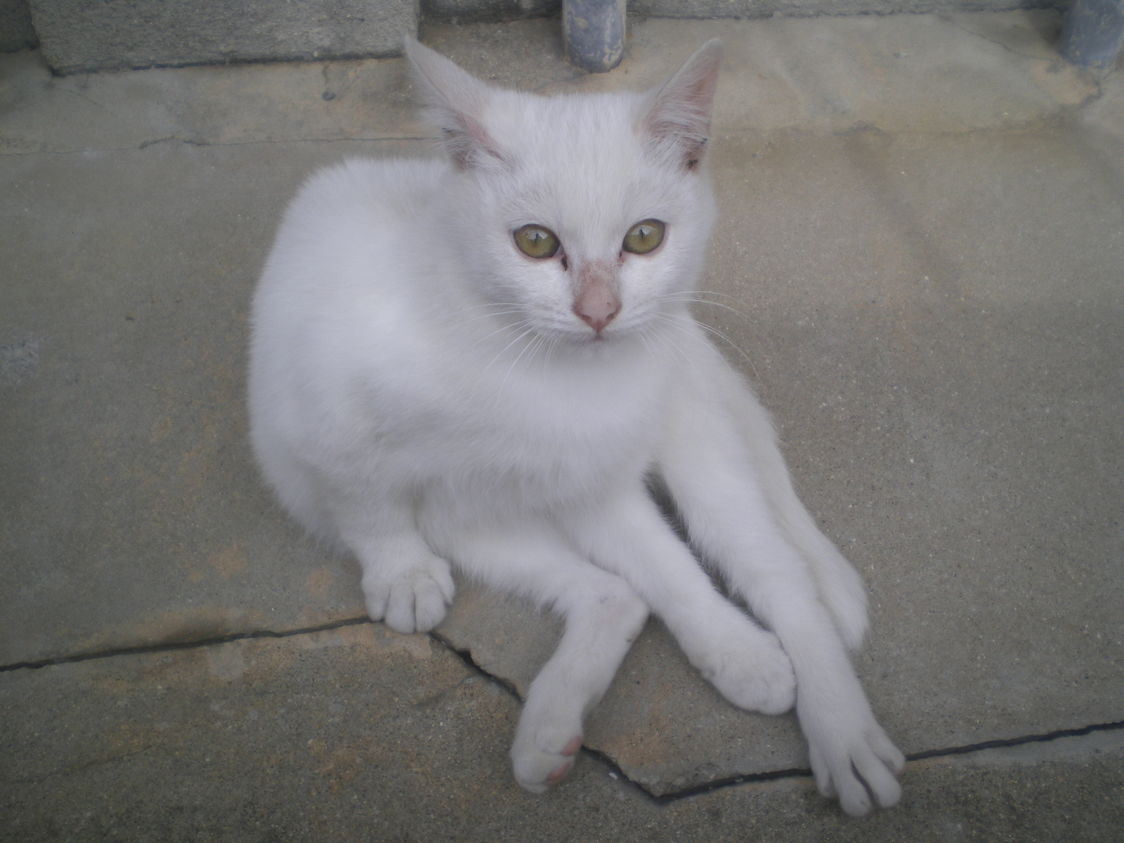 A stray white cat, the same cat as this resting stray white cat, sitting loosely like a typical Scottish Fold, in Kasuga City, Fukuoka, Japan.